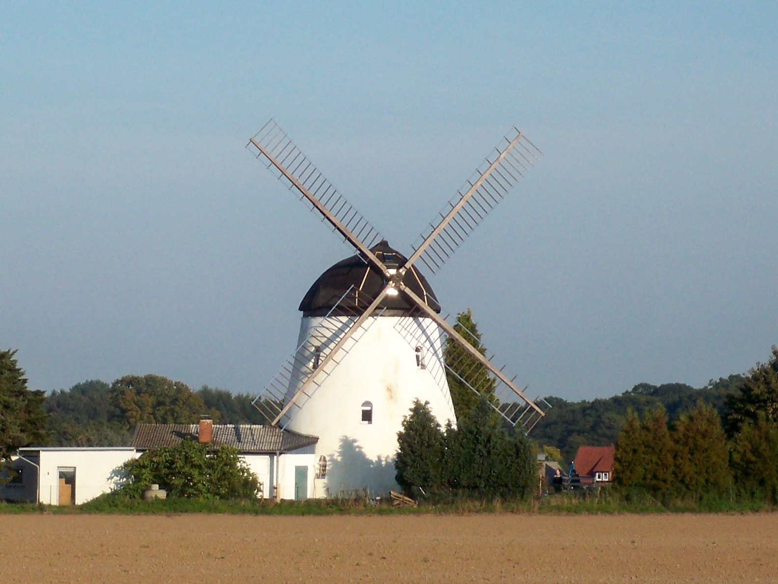 Ohrdorf, Wittingen, Lower Saxony, windmill after restoration in 2015